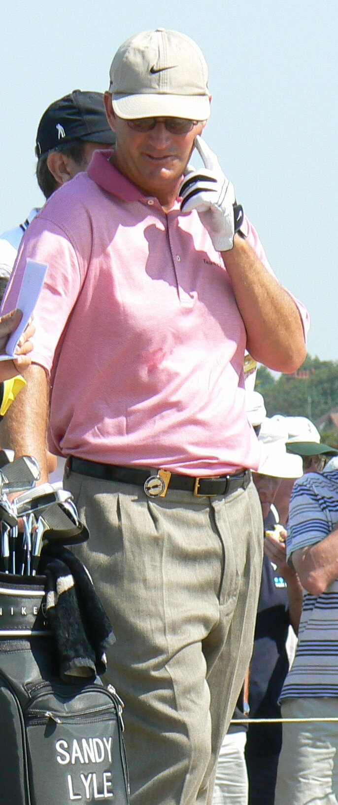 The Scotch professional golfer Sandy Lyle.